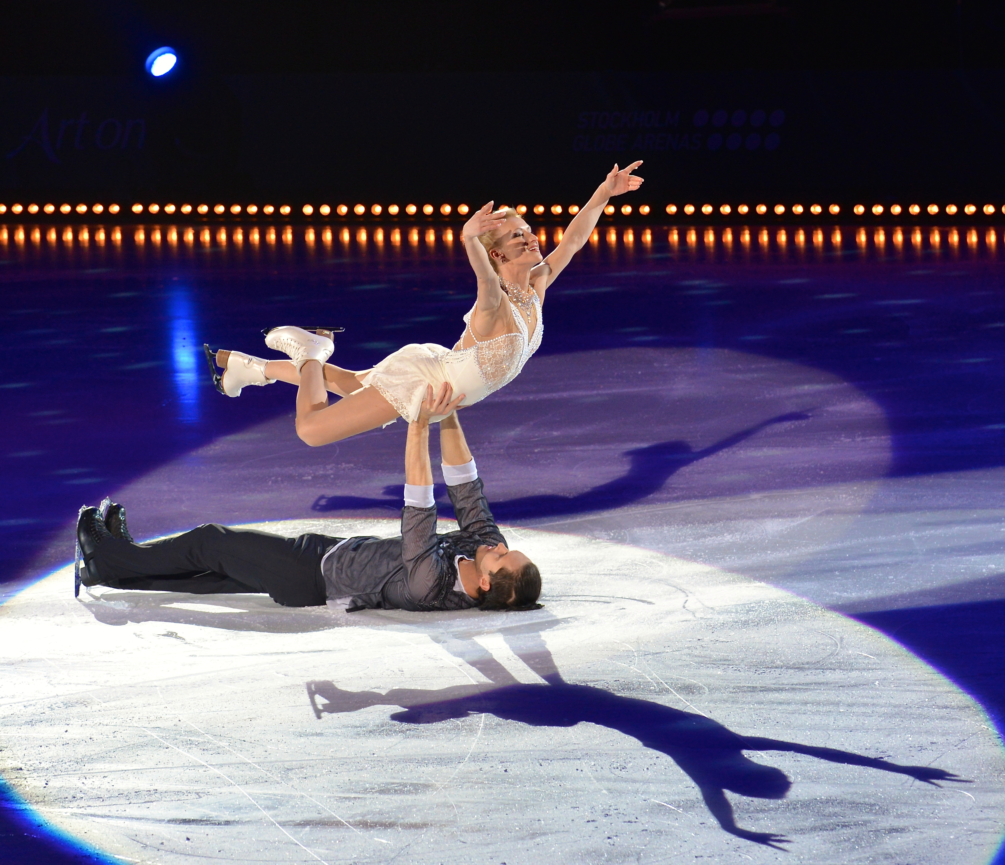 "Art on Ice" at the Globe Arena in Stockholm, March 13, 2014.